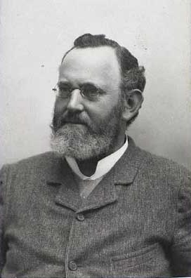 Danish solicitor/lawyer and politician Octavius Thomas Hansen (1838-1903)